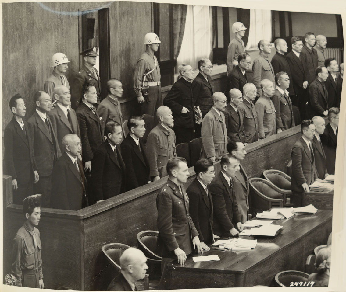 Prisoners stand as tribunal judges enter the courtroom, at the International War Crimes Tribunal for the Far East